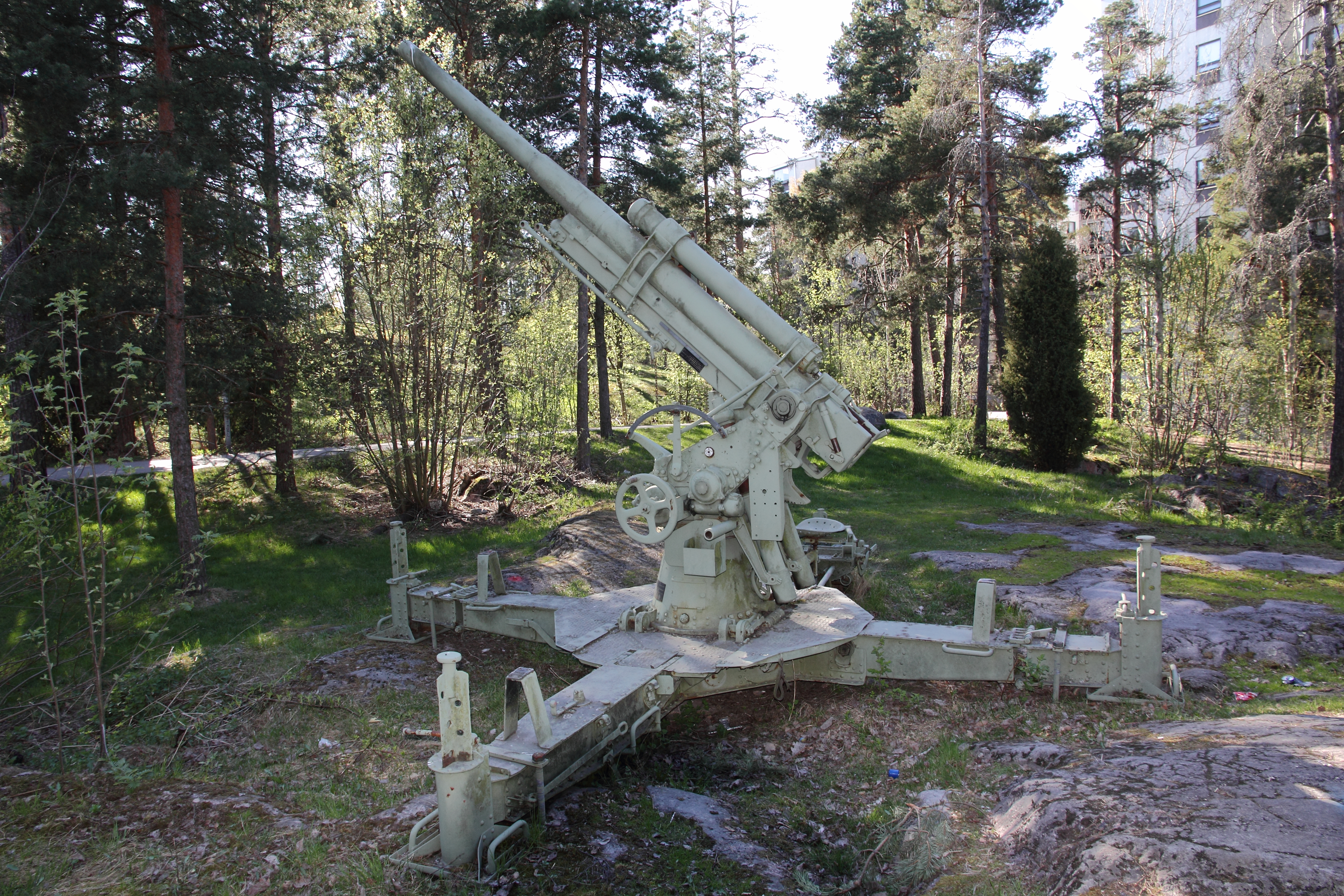 Captured Soviet 76 mm anti-aircraft cannon model 1931 in Tuulimäki, Espoo. Memorial of the heavy anti-aircraft battery 32 "Länsi", equipped with four such cannons in 1942-1944 at Tykkimäki in Tapiola.